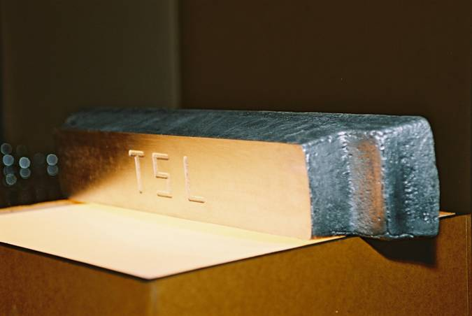 Aluminium ingot